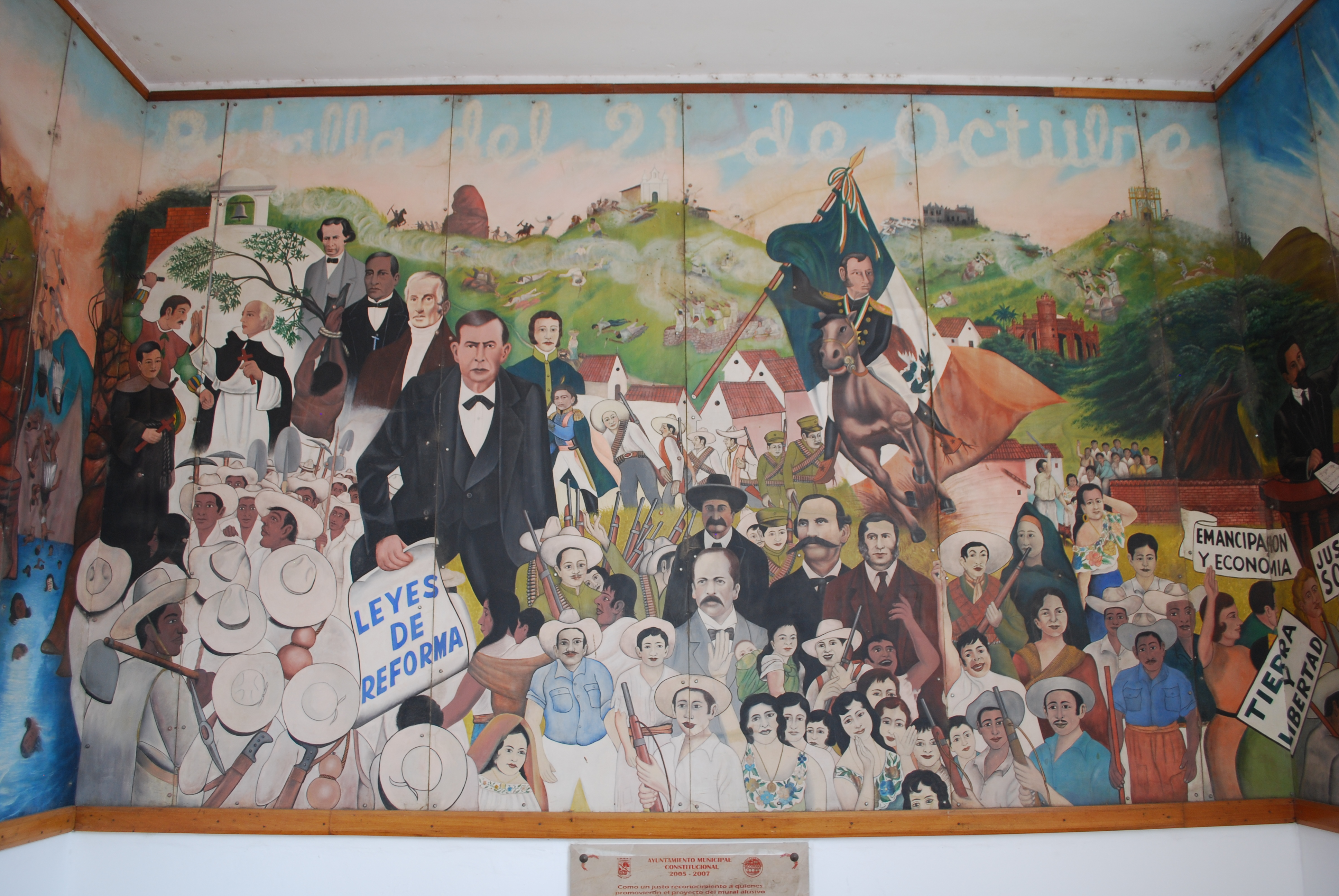 Mural by Carlos Merida at the Municipal Palace of Chiapa de Corzo, Chiapas, Mexico